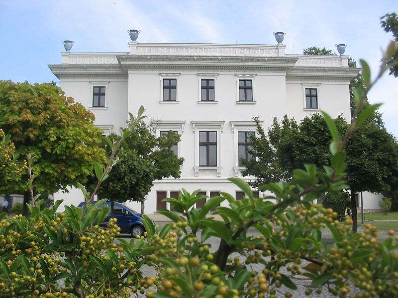 Villa von der Heydt, Von-der-Heydt-Str. 16–18, Berlin-Tiergarten, eastward beside the Bauhaus-Archiv at Landwehrkanal. The villa was built between 1860 and 1862 by the architect Hermann Ende for August Freiherr von der Heydt in the Neo-Renaissance-Style. Its since 1980 the domicile of the president and the administrative center of the Prussian Cultural Heritage Foundation.